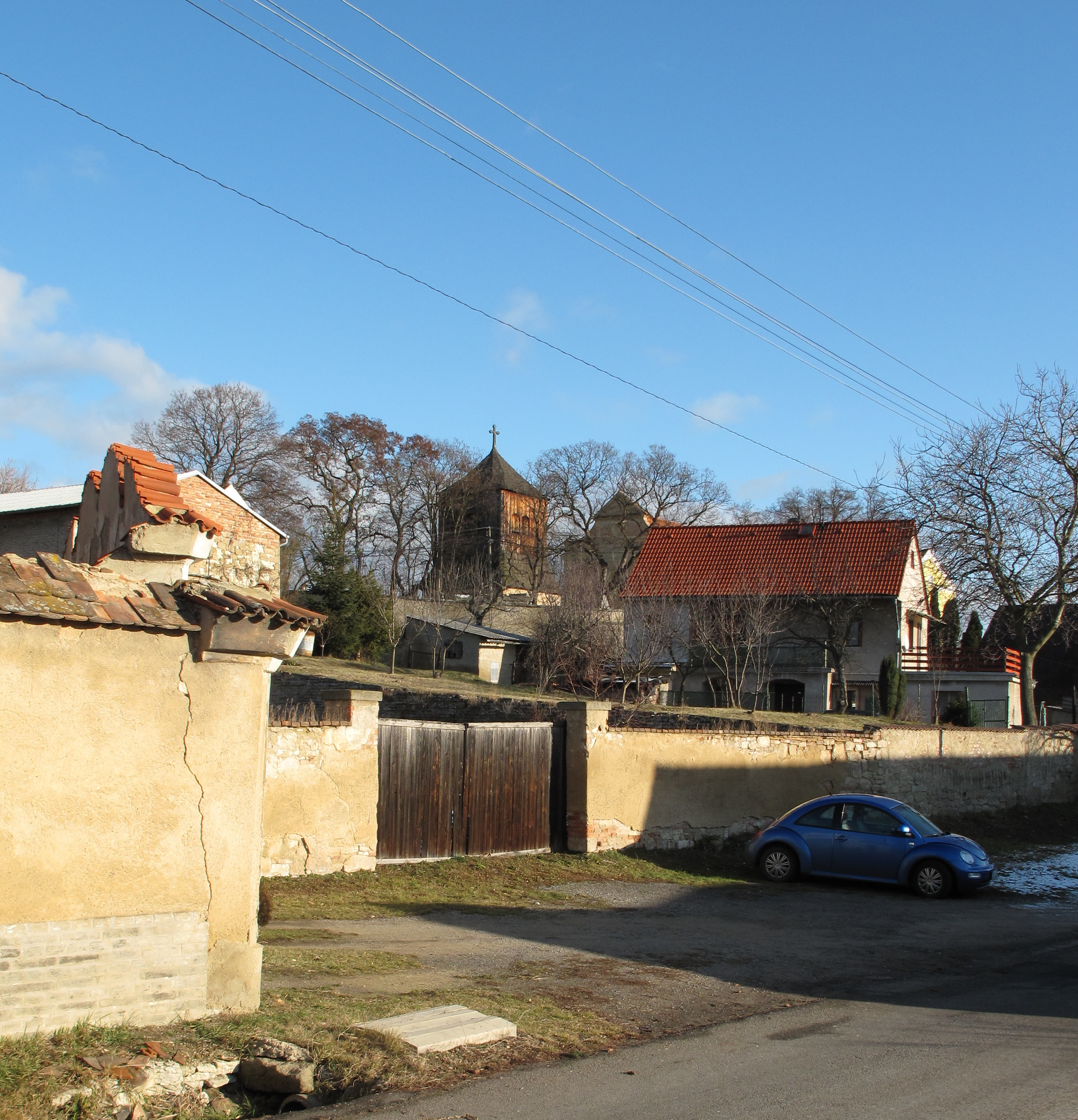 Roofs of the houses in Řisuty village, Kladno District, Czech Republic.